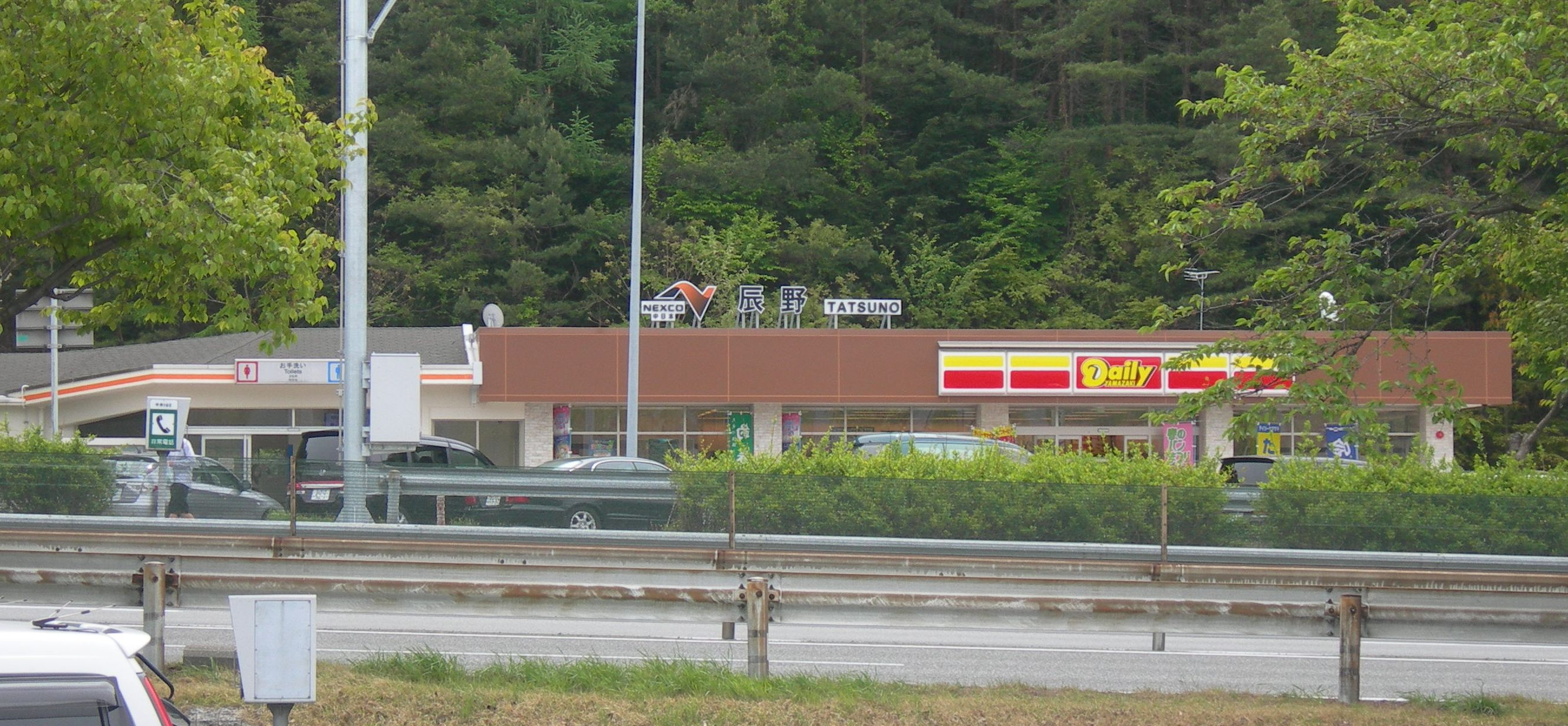 Tatsuno Parking Area on the Chuo Expressway outbound line for Nagoya